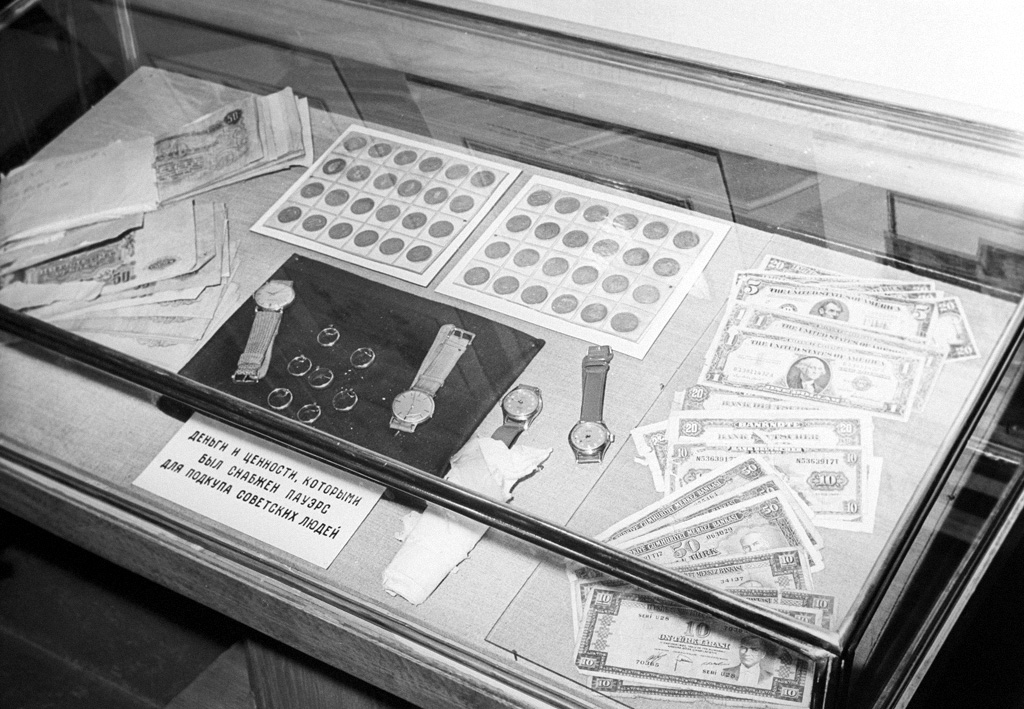 “Exhibition of remains of U.S. U-2 spy-in-the-sky aircraft”. Exhibition of remains of U.S. U-2 spy-in-the-sky aircraft destroyed on may 1, 1960 near Sverdlovsk (currently Yekaterinburg). Gorky Central Park of Culture and Leisure. Money and other values for bribery which Francis Gary Powers had with him.